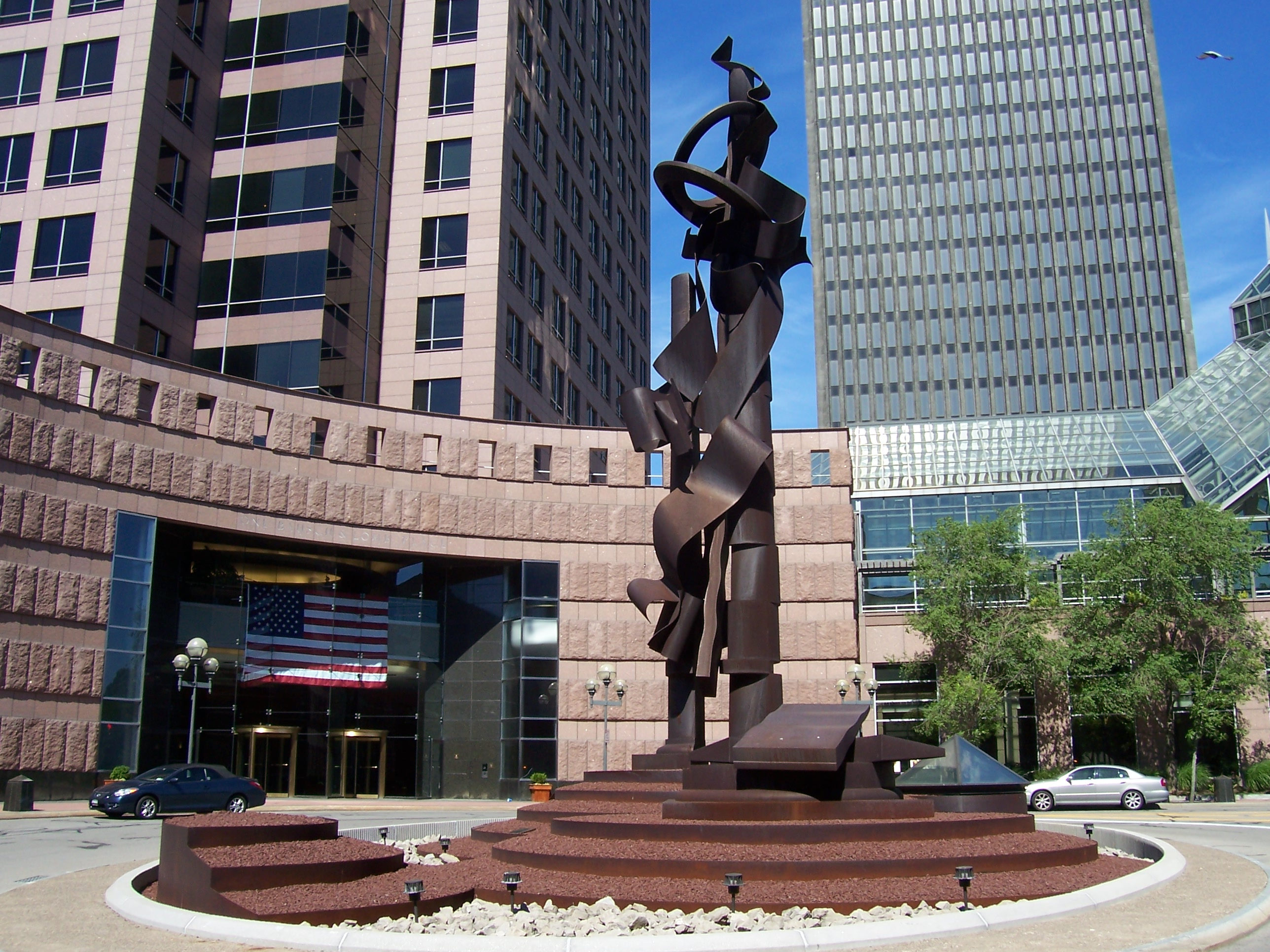 West entrance to Bausch & Lomb Place in Rochester, New York